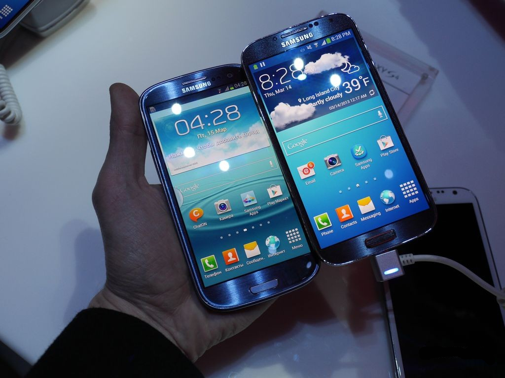 Presentation of Samsung Galaxy S4 (2013-03-14).